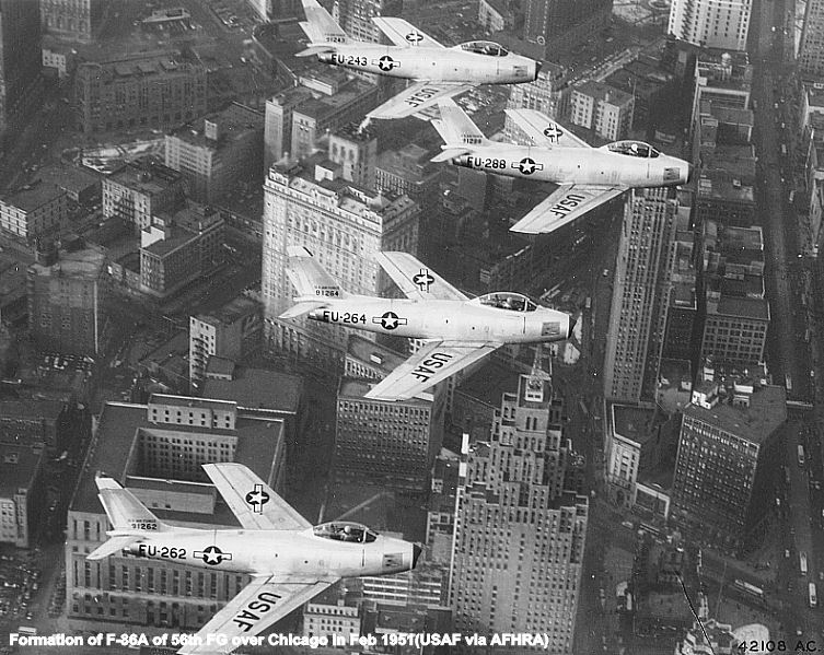 North American F-86As of the 56th Fighter Group flying formation over Chicago